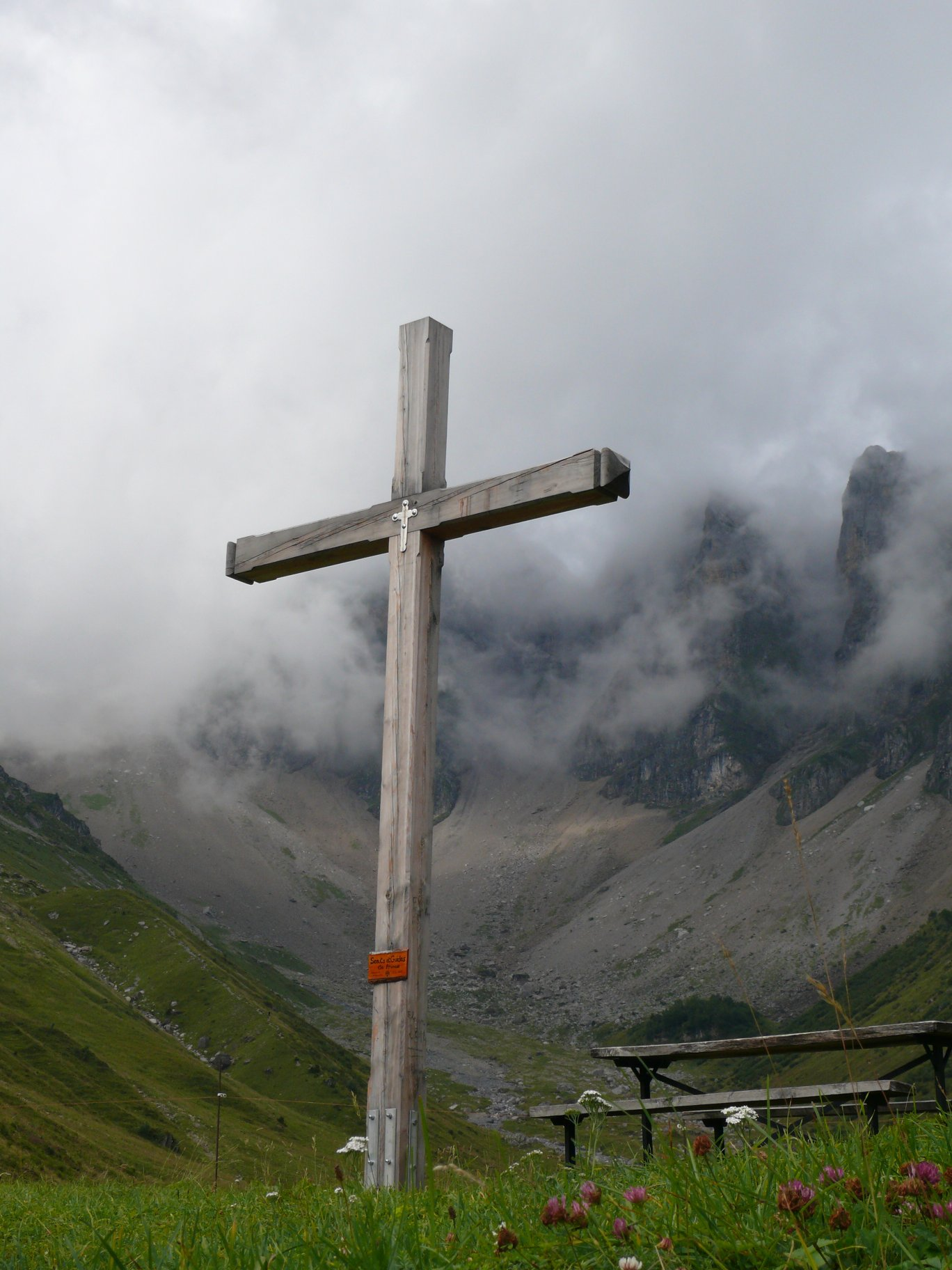 The chapel of Our Lady of the Peace of the World in Sallanches (Haute-Savoie, Rhône-Alpes, France).